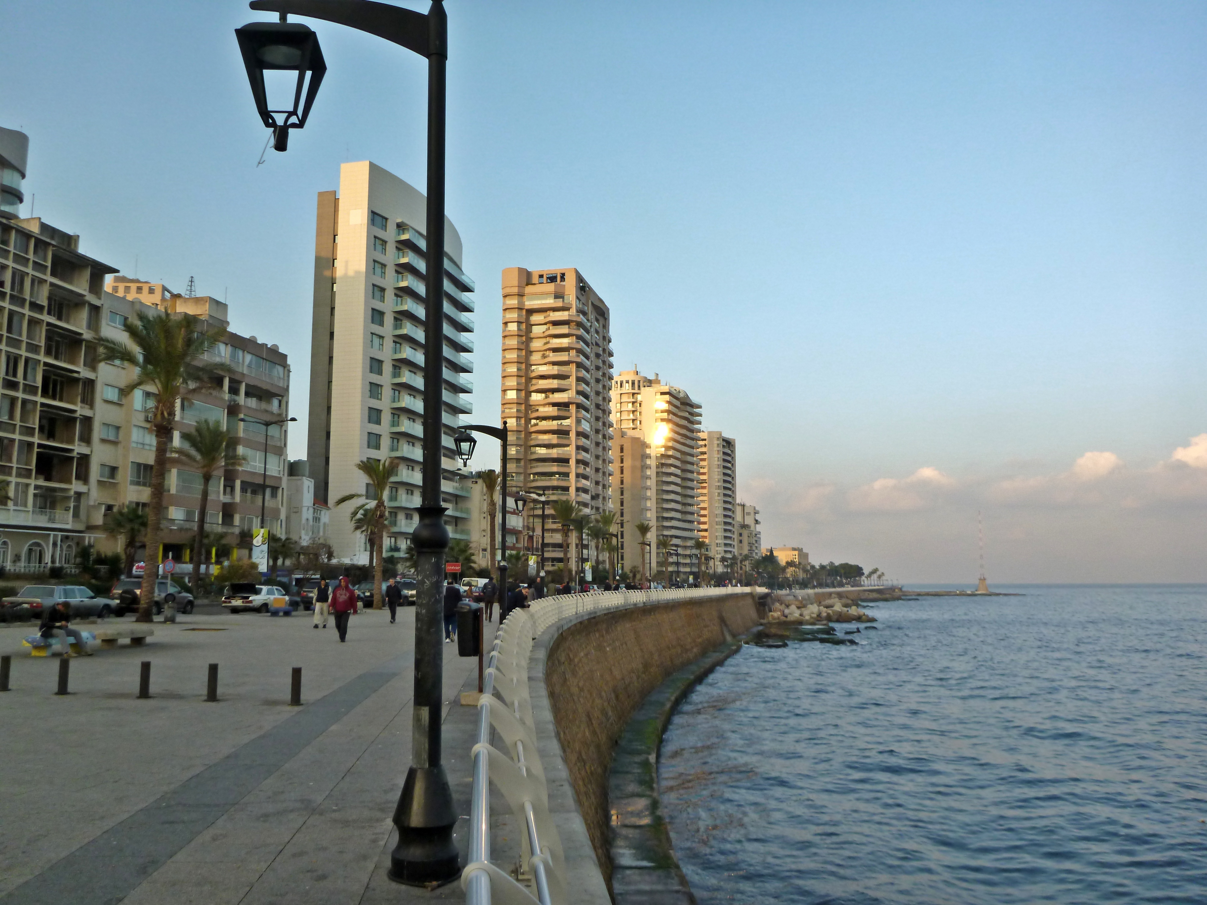 North part of Beirut Corniche